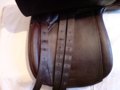 Additional girth point fitted forward, at point of tree, for extra stability on mutton-withered animal